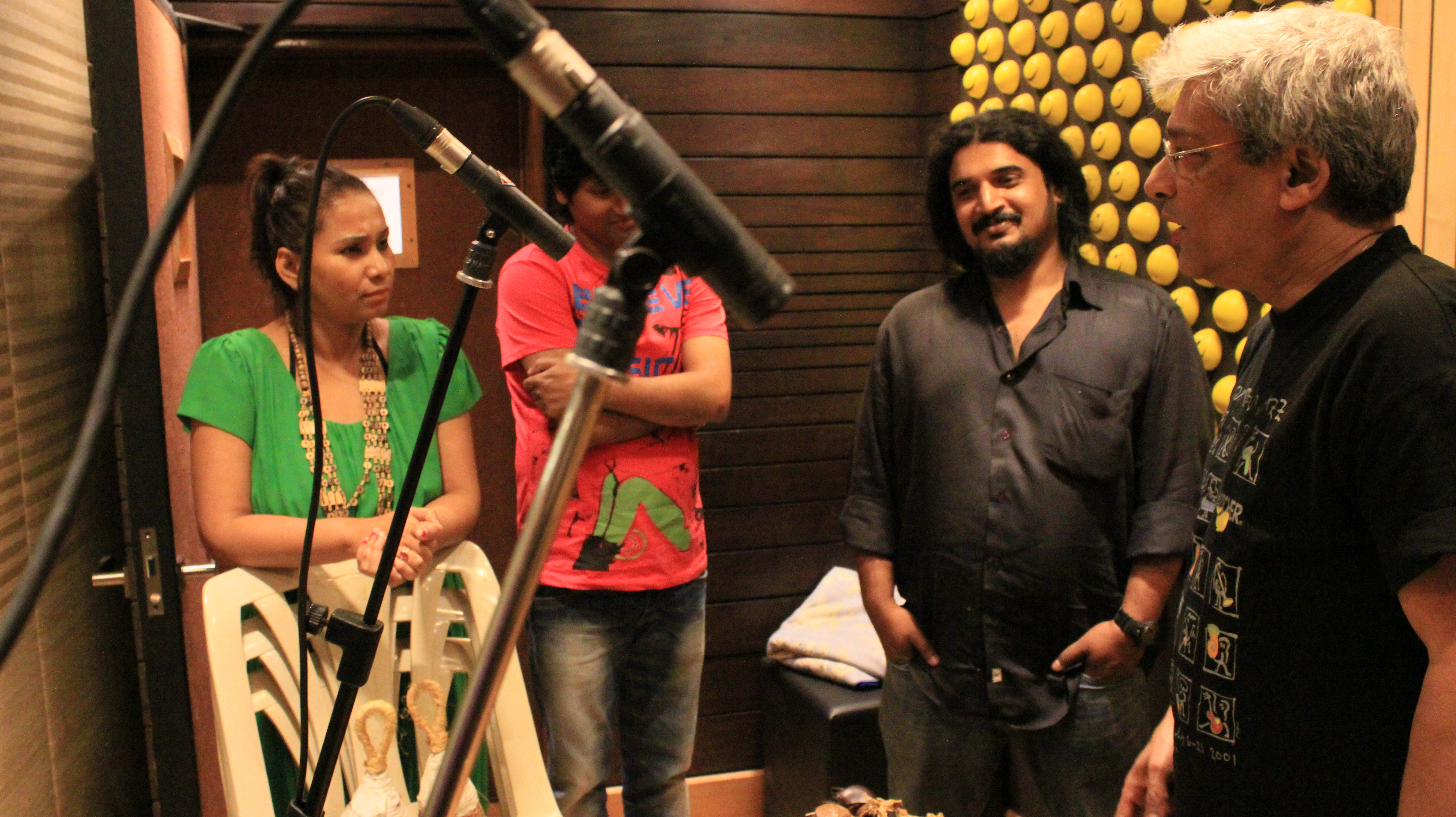 A musical documentation about the reformer, a wandering philosopher, saint and poet, creative genius and consummate artist Mahapurush Srimanto Shankaradeva and his disciple Mahapurush Srimanto Madhavdeva in Assam who walked across Northern India, to the source of the Ganges and returned to his people in the cloistered valley of Assam and called for a union of all the people in a united Bharatvarsha. He preached Eka-Sarana-Nama-Dharma a monotheistic doctrine based on the Bhagvata Purana with Surdas, Chandidas, Kabir, Vidyapati the Maithili Poet and Lyricist, Mirabai, Narsi Mehta the poet saint and Bhakta from Gujarat, Vallabhacharya the devotional philosopher from Andhra, Chaitanya Mahaprabhu of Bengal at a time when a young 24 year old Guru Nanak was also exploring his own vision of Eka-Sarana-Nama-Dharma which he went on to preach throughout the world as “Ek Omkar Satnam”. It was the dawn of the Bhakti Era. The language used is BRAJAWALI and she will be credited of bringing back some of Assams primitive instruments.